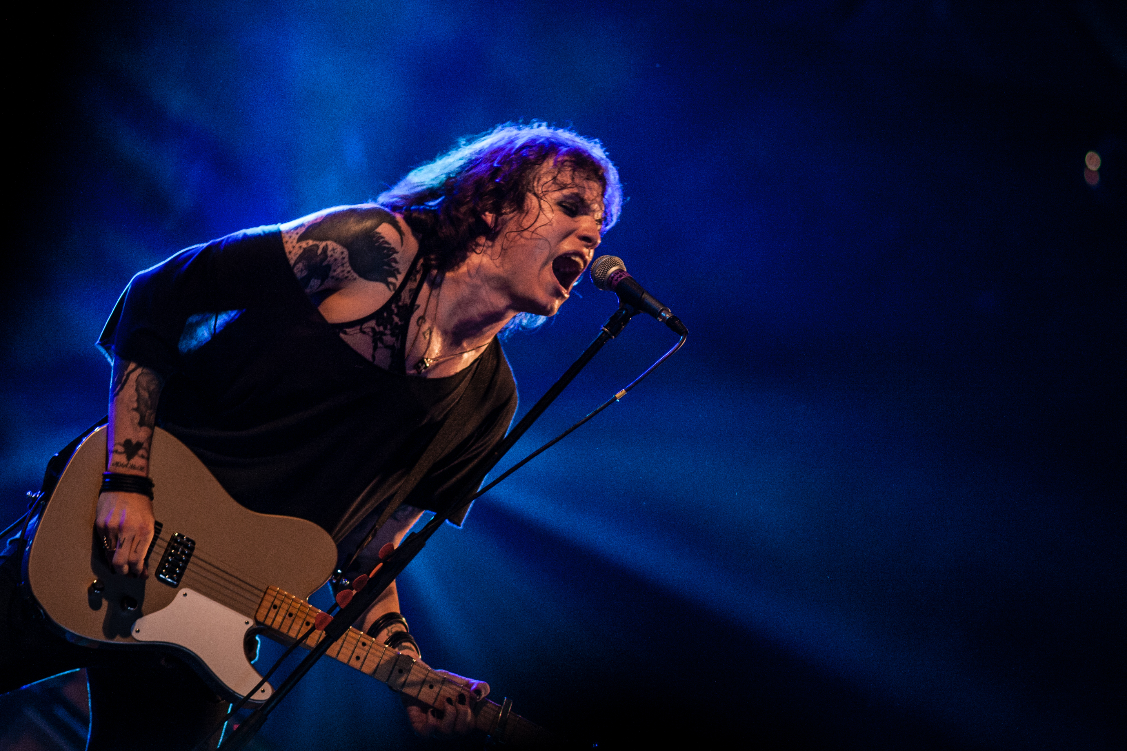 Follow me on facebook Twitter : @didyPhotography All the photographies I've made are now under CC0 (Creative Commons Zero) CC0 - learn more To the extent possible under law, Eddy BERTHIER has waived all copyright and related or neighboring rights to Against Me! @ Dour 2012. This work is published from: France.